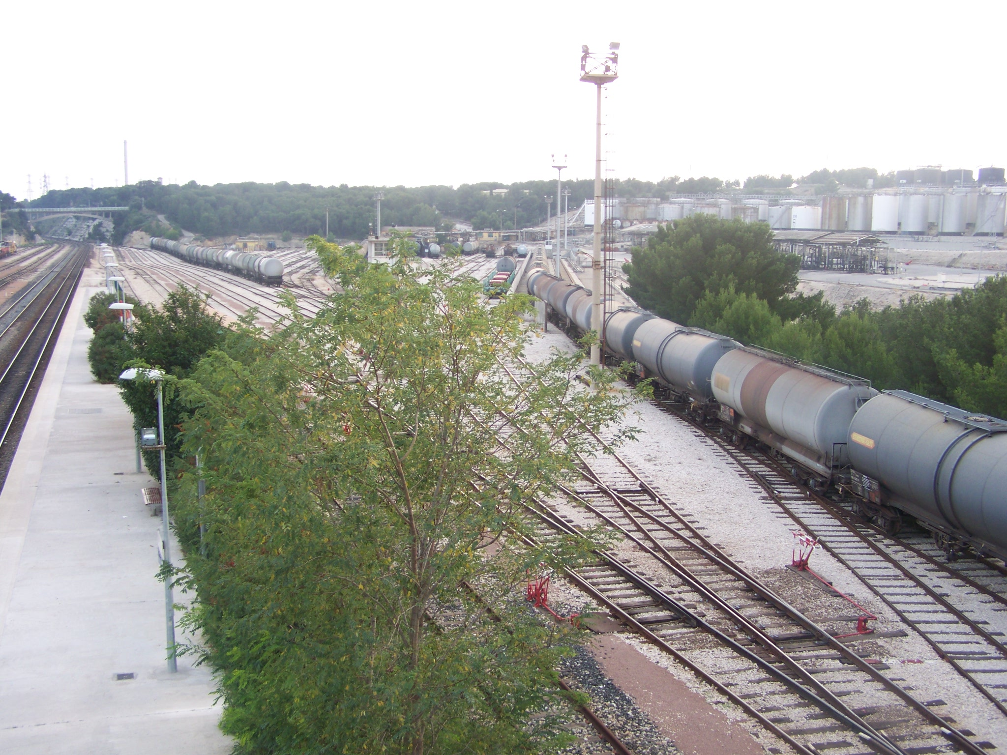 Classification yard of city of Martigues in Bouches-du-Rhône, France.